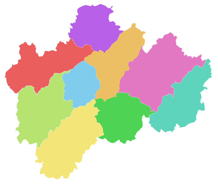 Subdivision of Jinhua China.